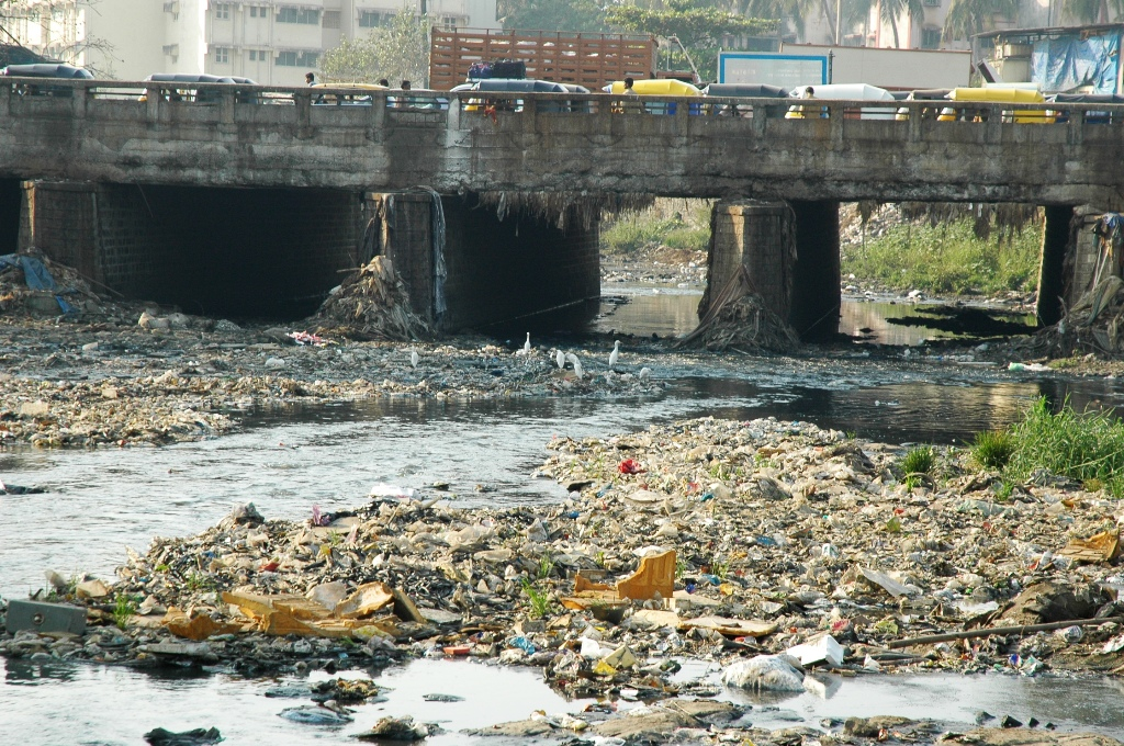 Polluted Oshiwara river in January 2006.